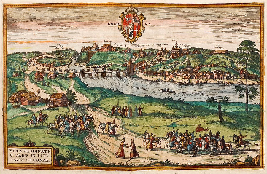 View of Hrodna in Belarus